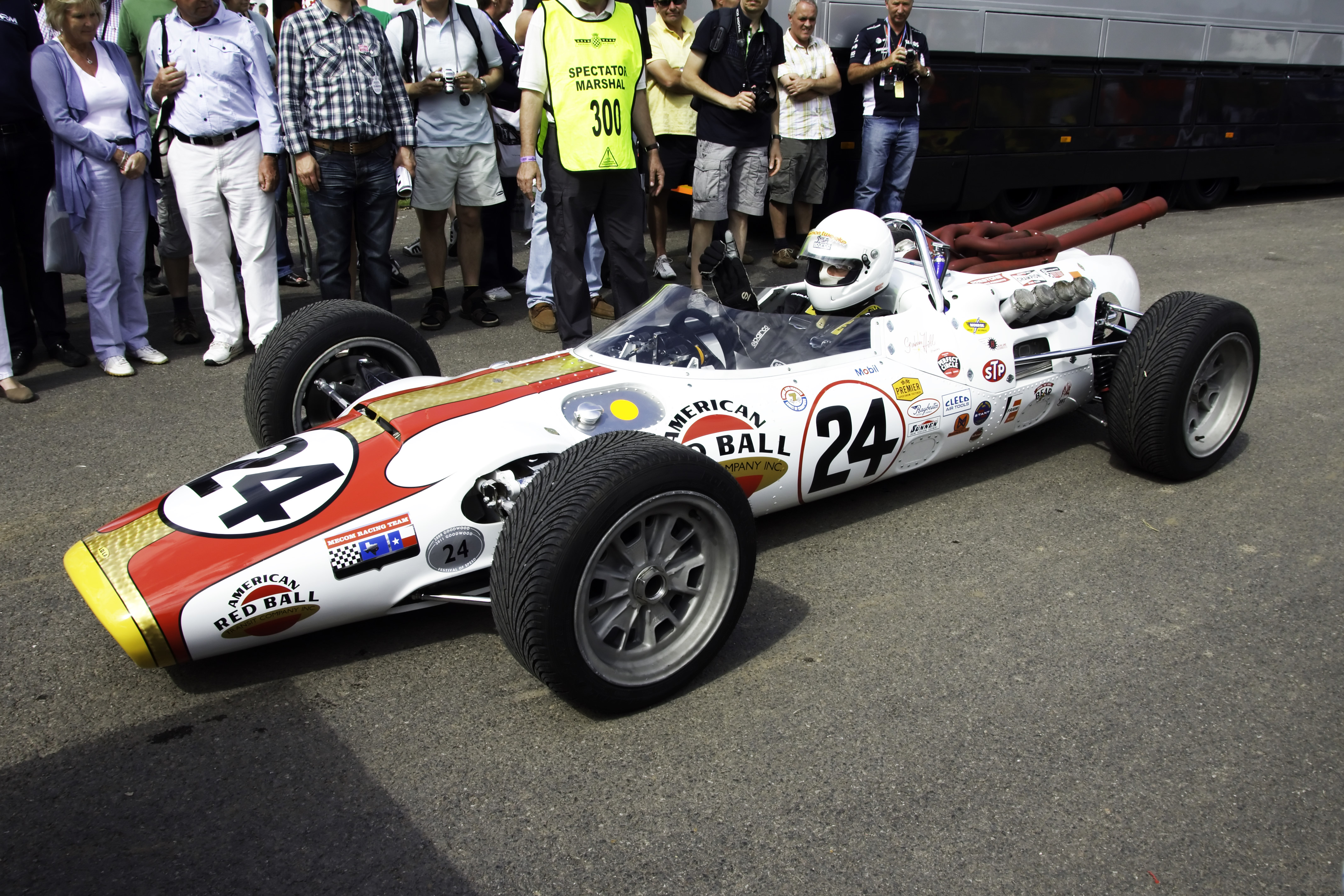 Lola-Ford T90 "Red Ball Special"